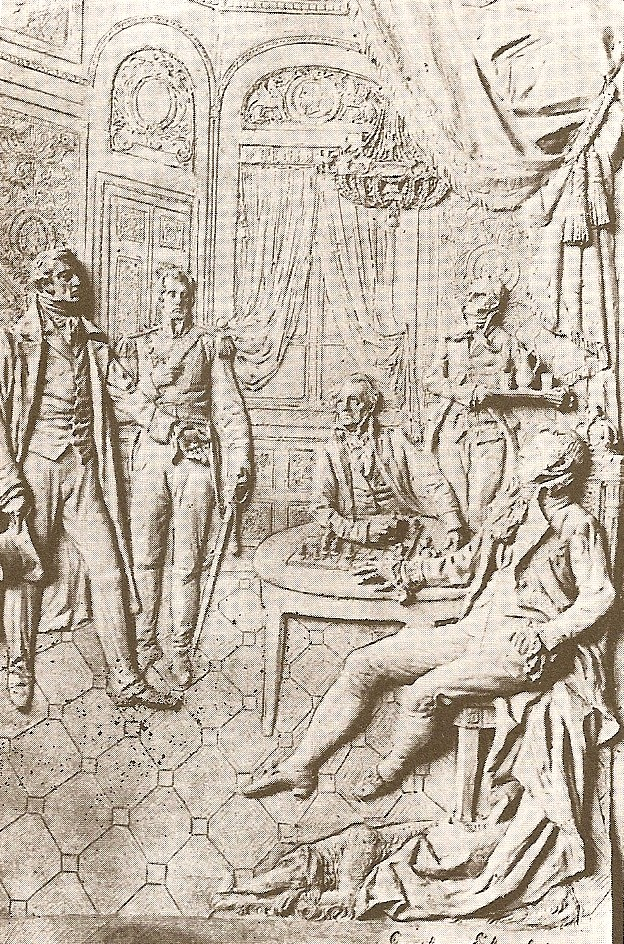 Juan Jose Castelli demands the viceroy Cisneros to allow the call for a Cabildo Abierto